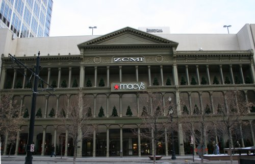 Photo taken by Brian Davis, December 26, 2006, Salt Lake City ZCMI (Macy's) historic storefront.